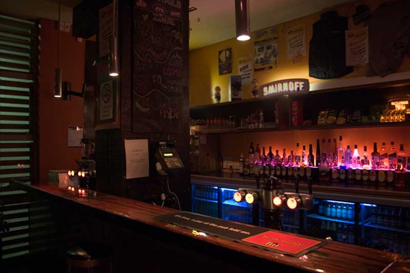 Vesbar, Auckland Student Movement @ AUT